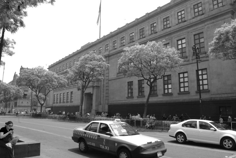 Building of the Supreme Court of Justice of Mexico